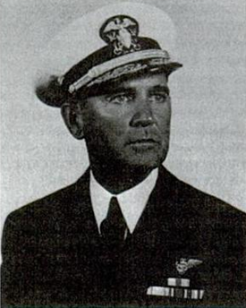 Admiral John D. Price.